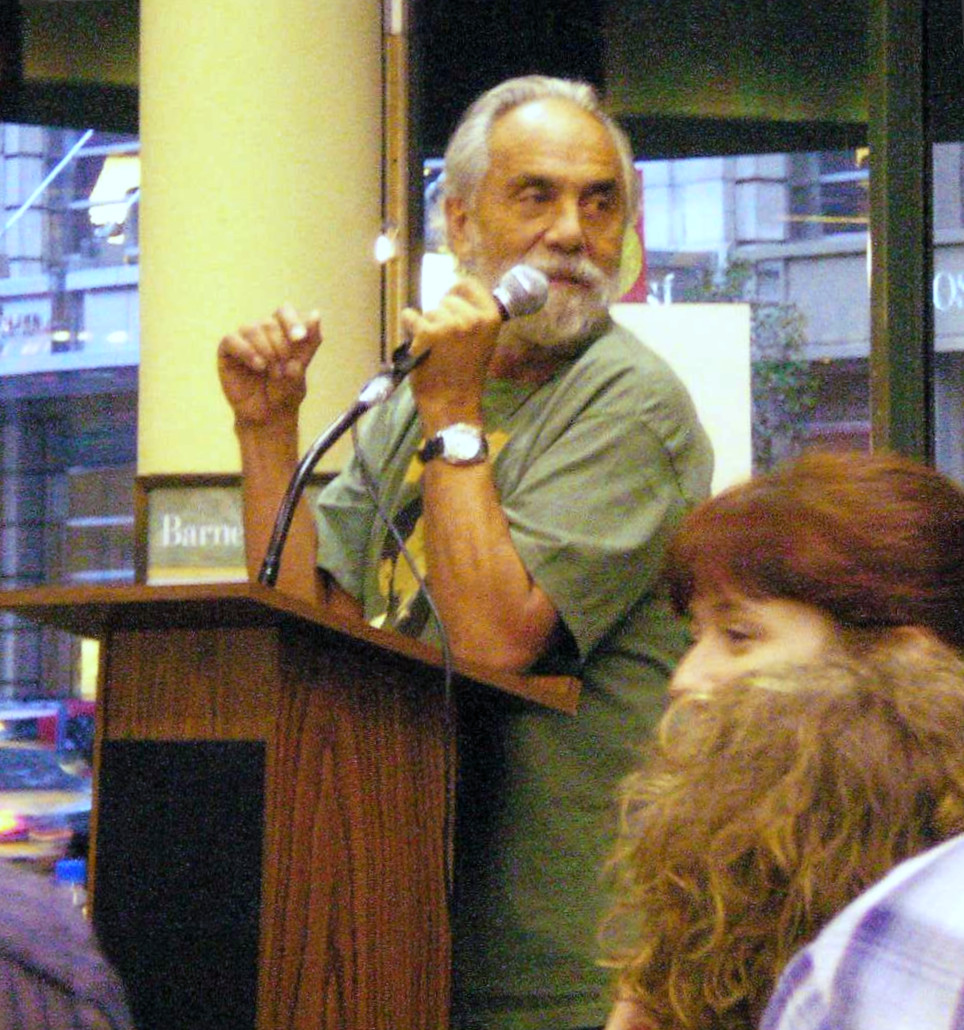 Tommy Chong by David Shankbone, New York City